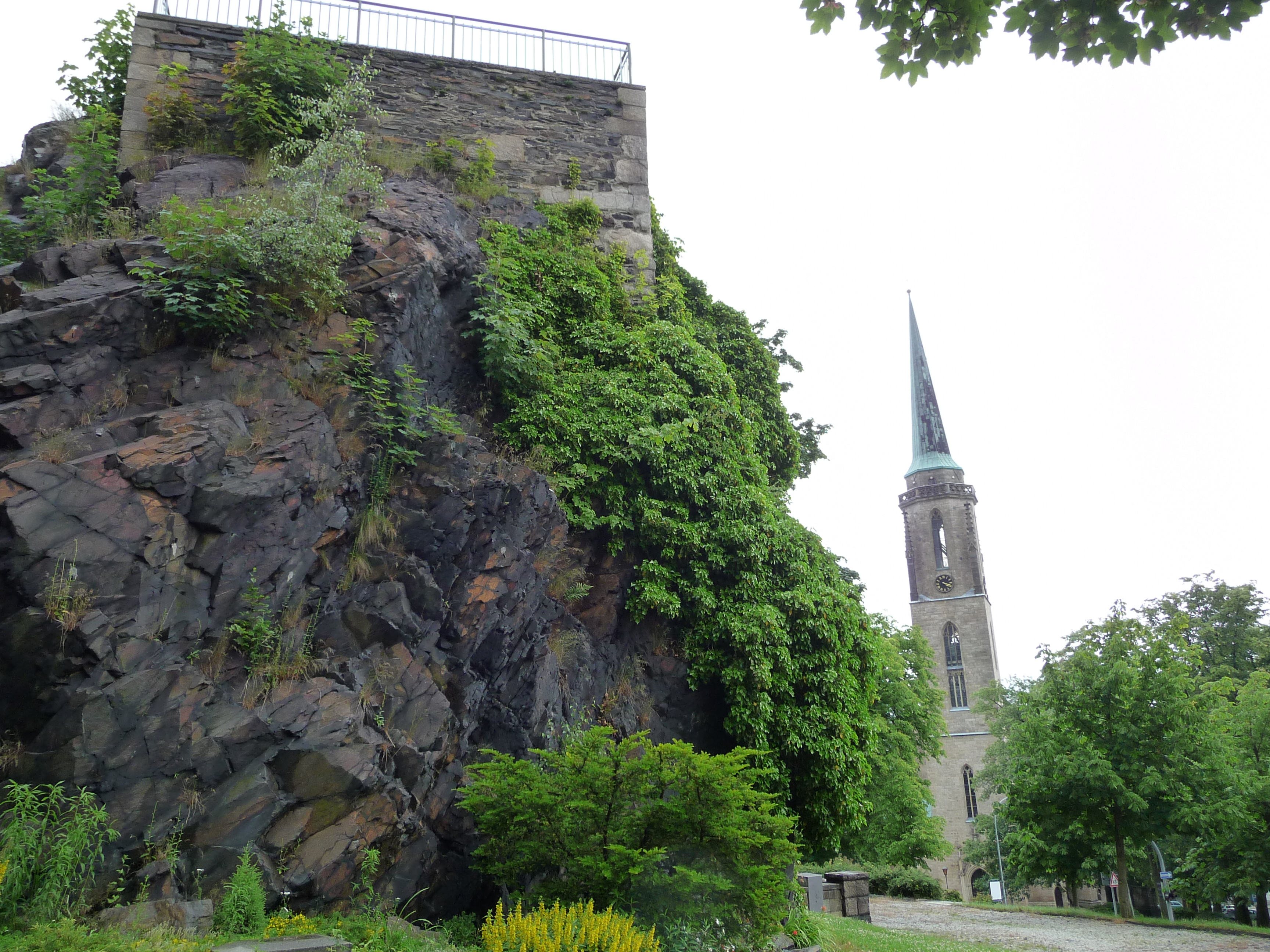 The castle rocks and the St. Cross church in Falkenstein, Saxony, Germany.